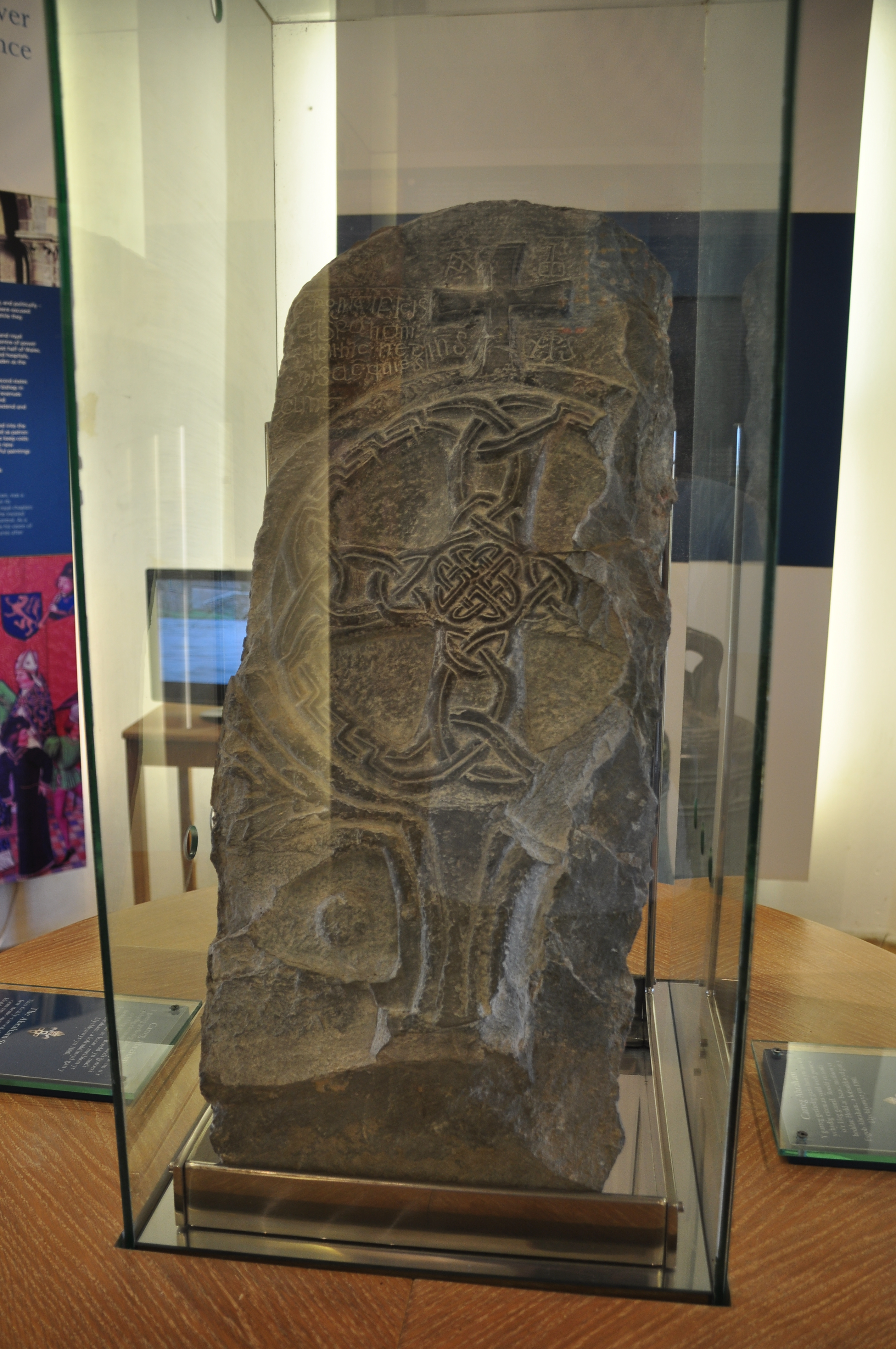 Porth y Tŵr